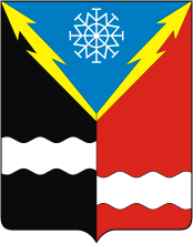 Verkhnetulomsky (Murmansk oblast), proposal coat of arms (20012)